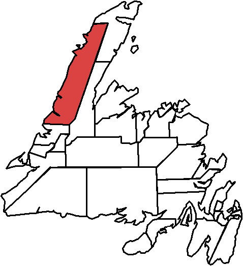 Maps based on images by Earl Warren, from the 2007 elections